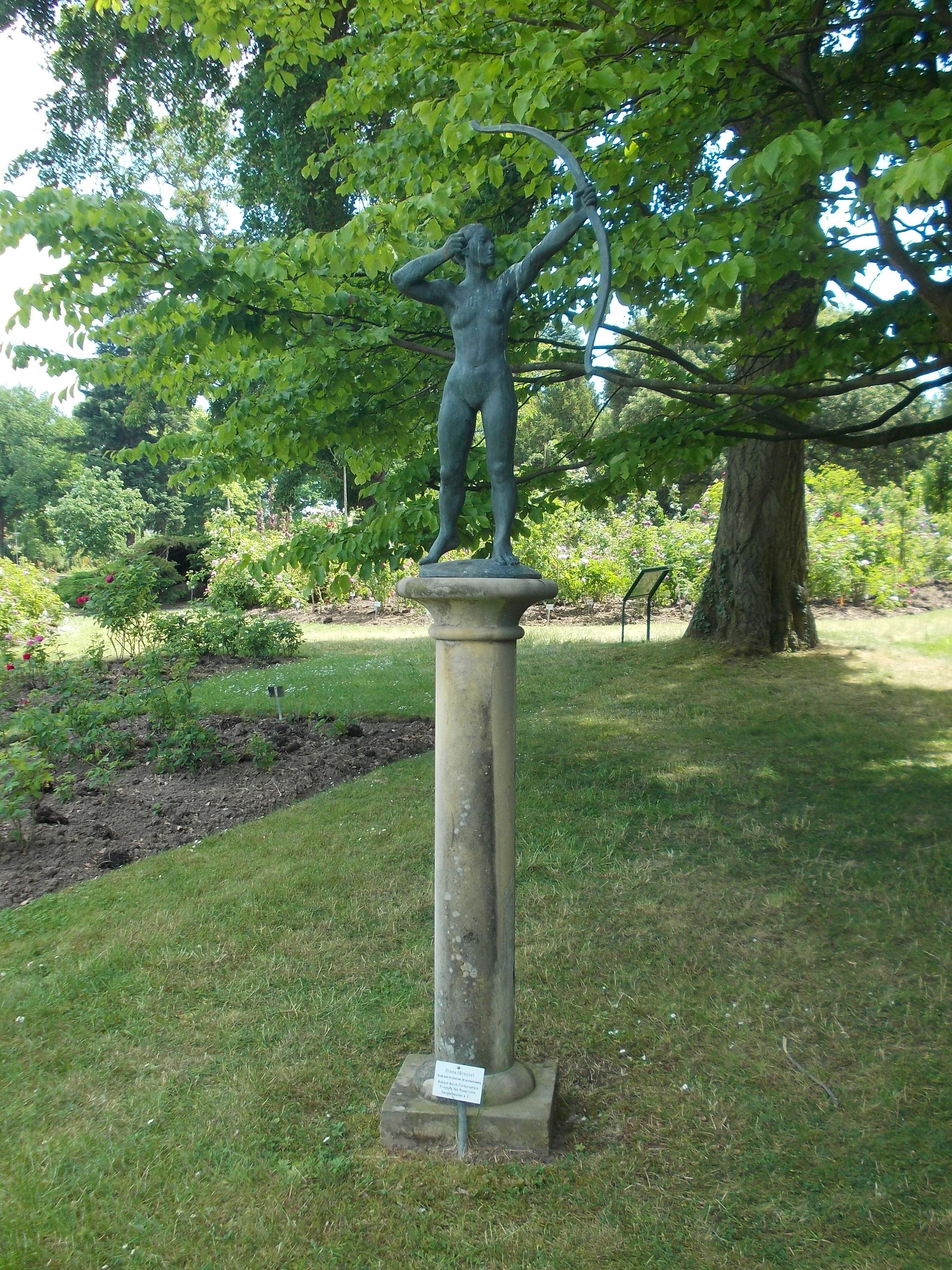 "Diana" by Andreas Krämmer in the Europa Rosarium Sangerhausen (Mansfeld-Südharz district, Saxony-Anhalt)